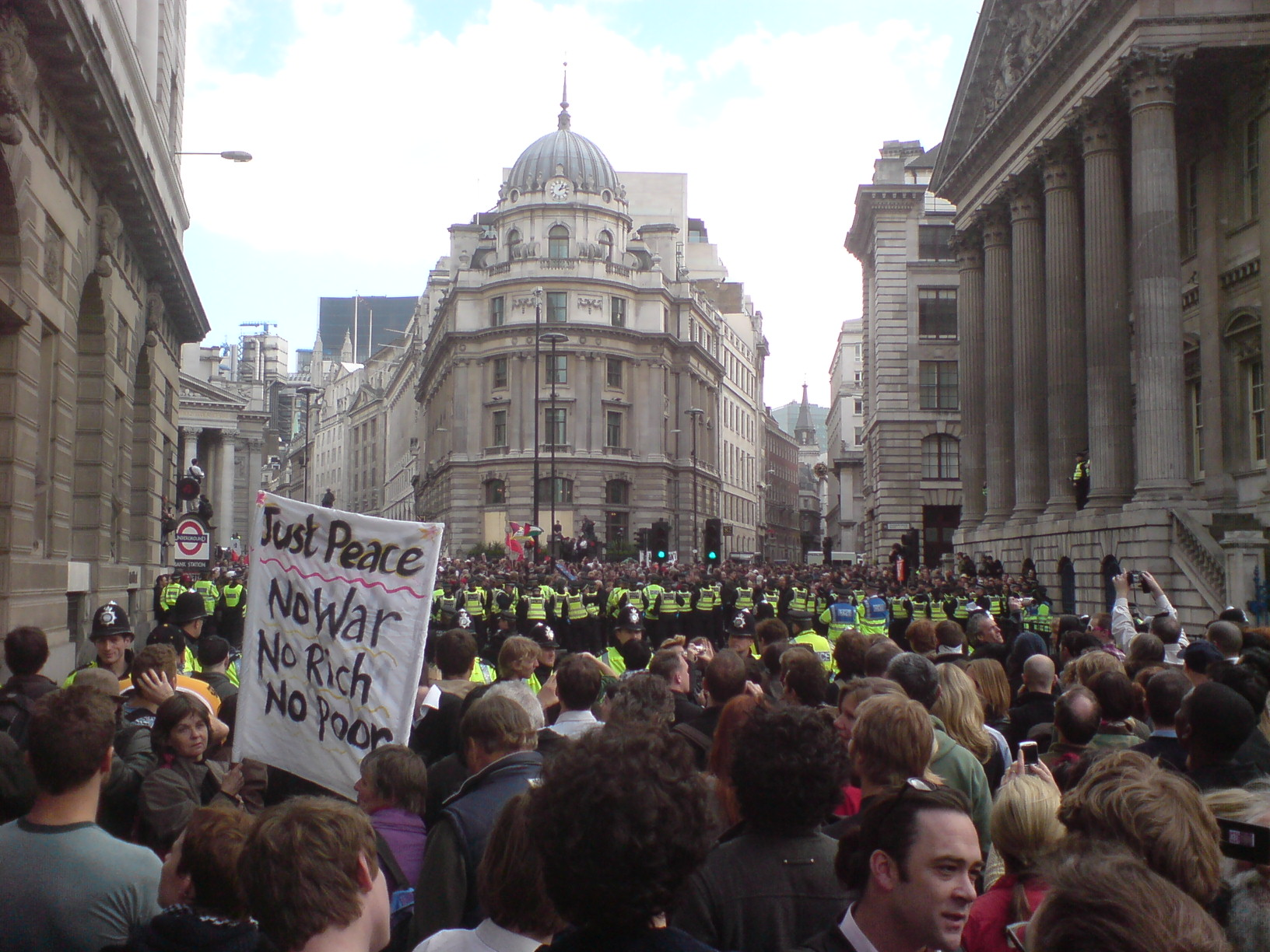 Crowd at the Bank of England, at the G20 Meltdown protest in London on 1 April 2009